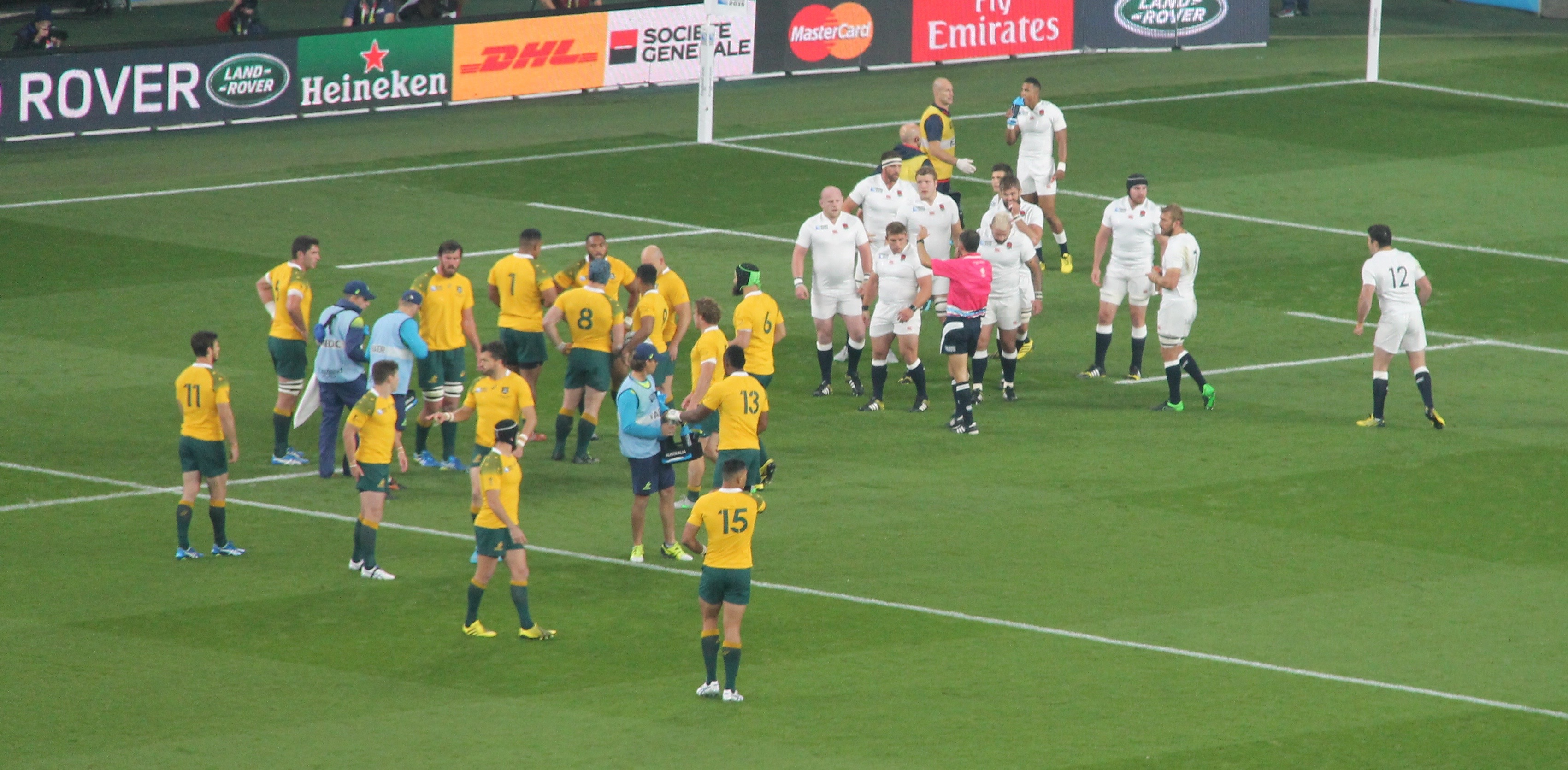 2015 Rugby World Cup match between England and Australia at Twickenham Stadium, London.